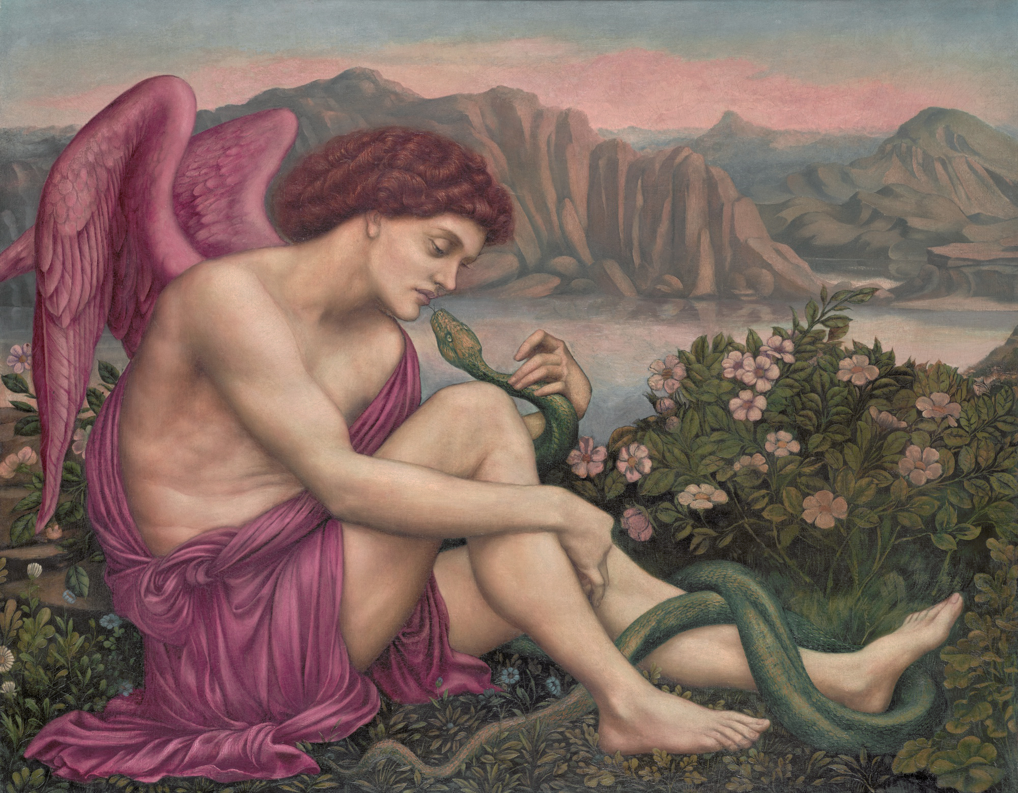 The angel with the serpent (Percival Spencer Umfreville Pickering, 1858-1920) oil on canvas 89 x 112 cm 1870s